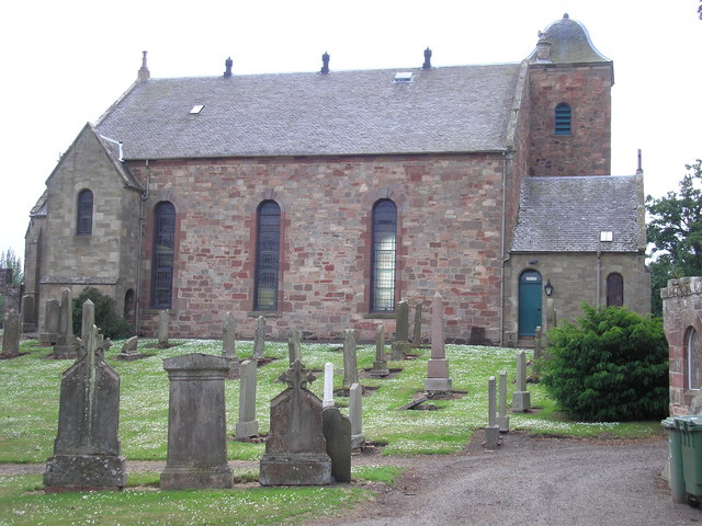 Prestonkirk church The view of Prestonkirk church, one of three church buildings in the Parish of Traprain (this parish was created in 1999 upon the union of the three congregations of Prestonkirk, Stenton and Whittingehame).